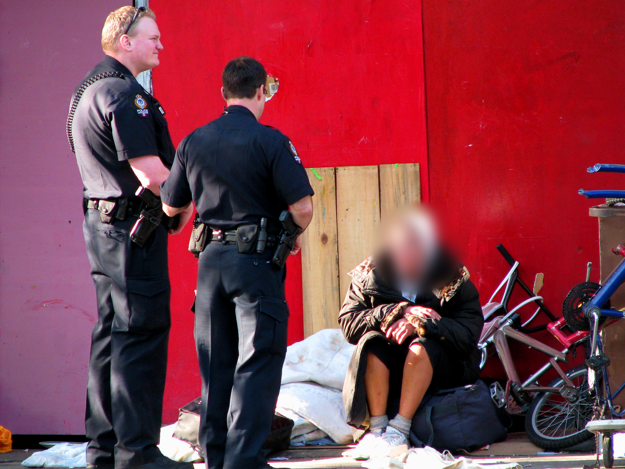 A person who is homeless in the company of Vancouver Police Department officers on East Hastings near Main Street, in the downtown eastside area of Vancouver BC Canada.